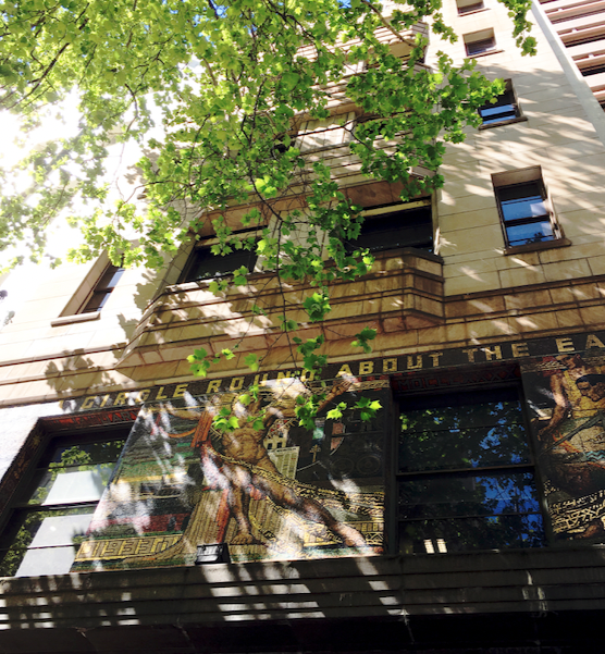 The Discover English campus is located in a historic building in Melbourne City